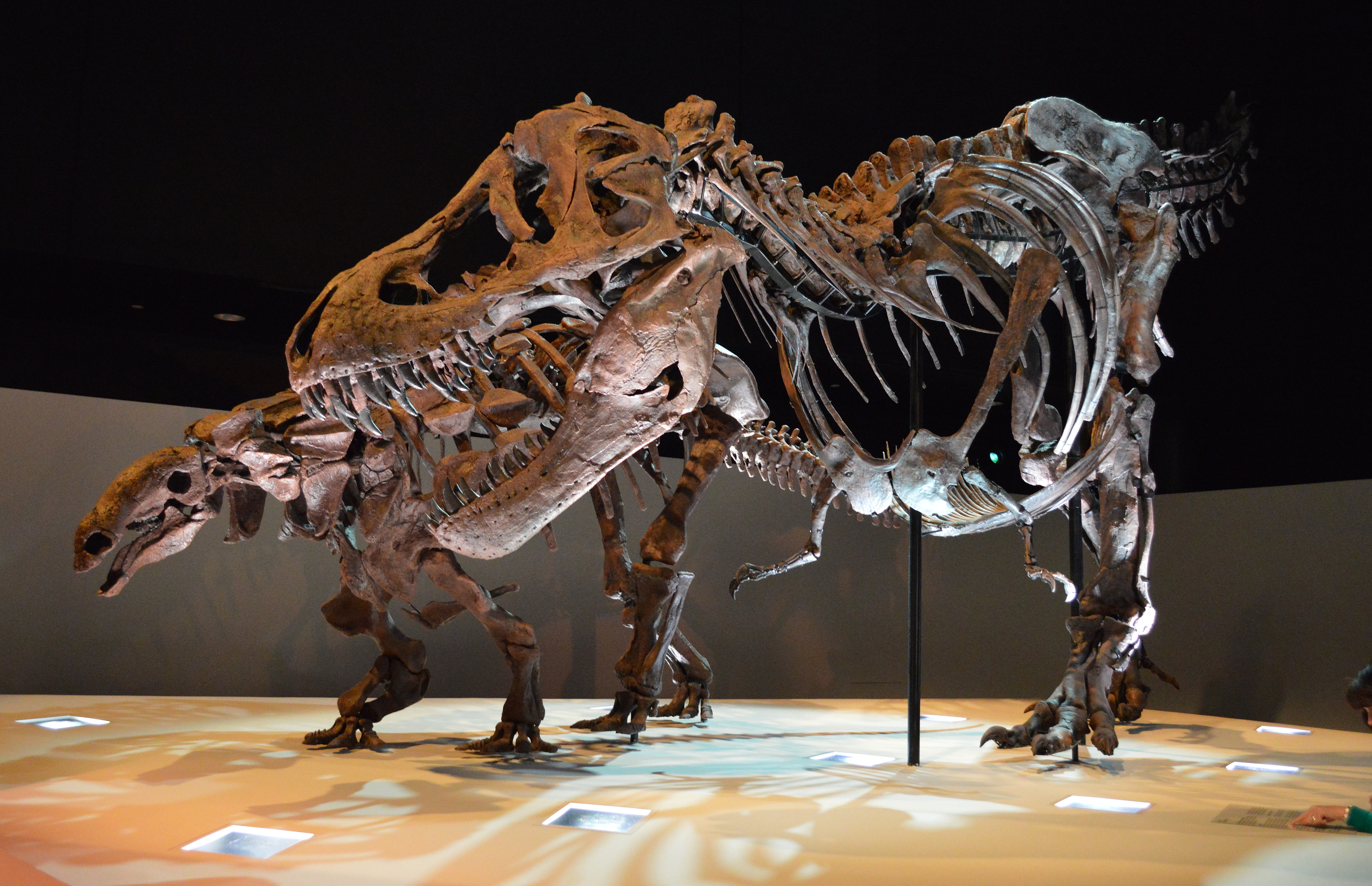 A dinosaur fossil exhibit at the Morian Hall of Paleontology in the Houston Museum of Natrual Science.